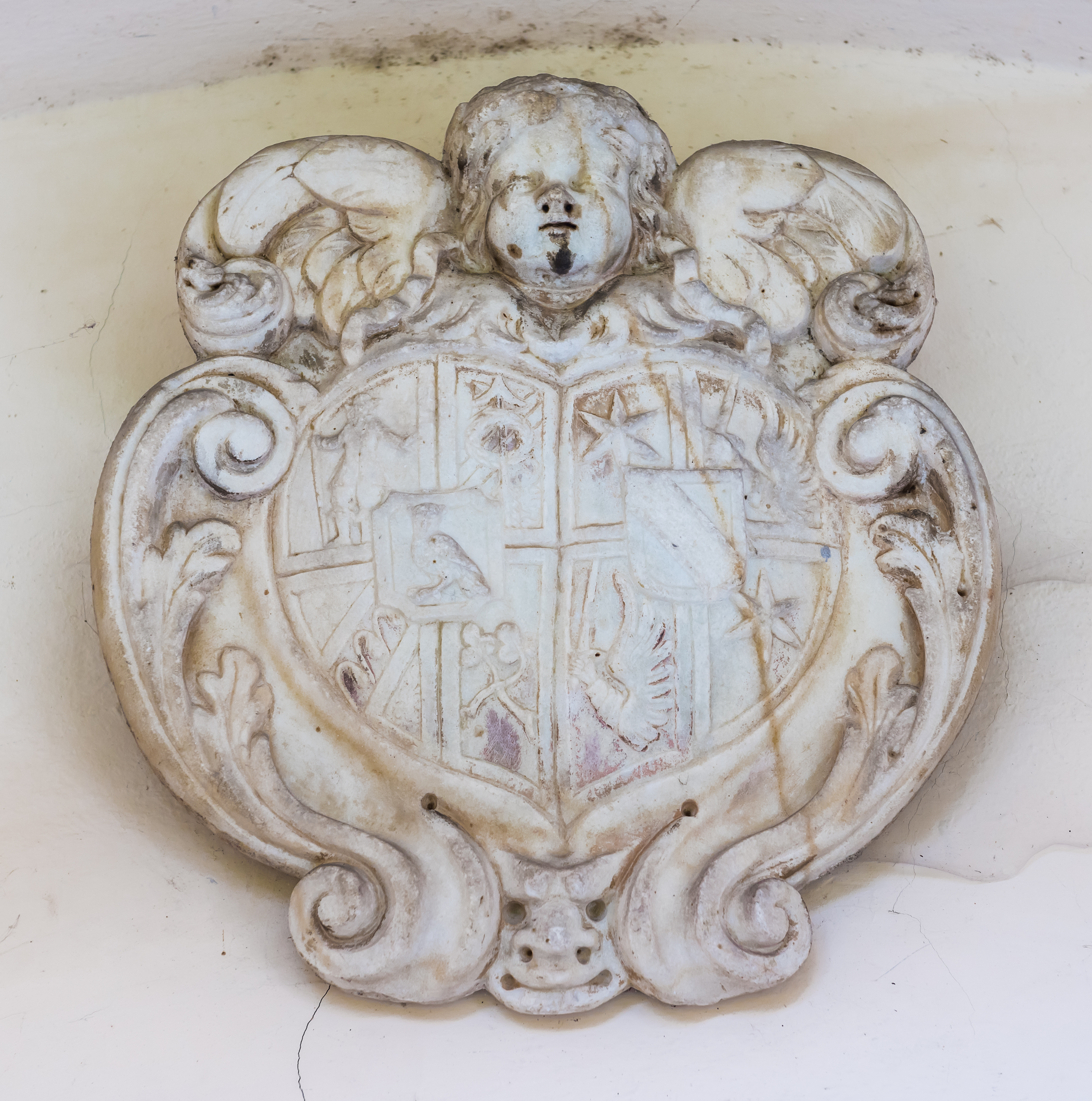 Baroque cartouche with the two coats of arms of Schober-Kulmer over the garden portal of castle Krastowitz, Krastowitz #1, Welzenegg, 10th district «Sankt Peter», municipality Klagenfurt, Carinthia, Austria, EU